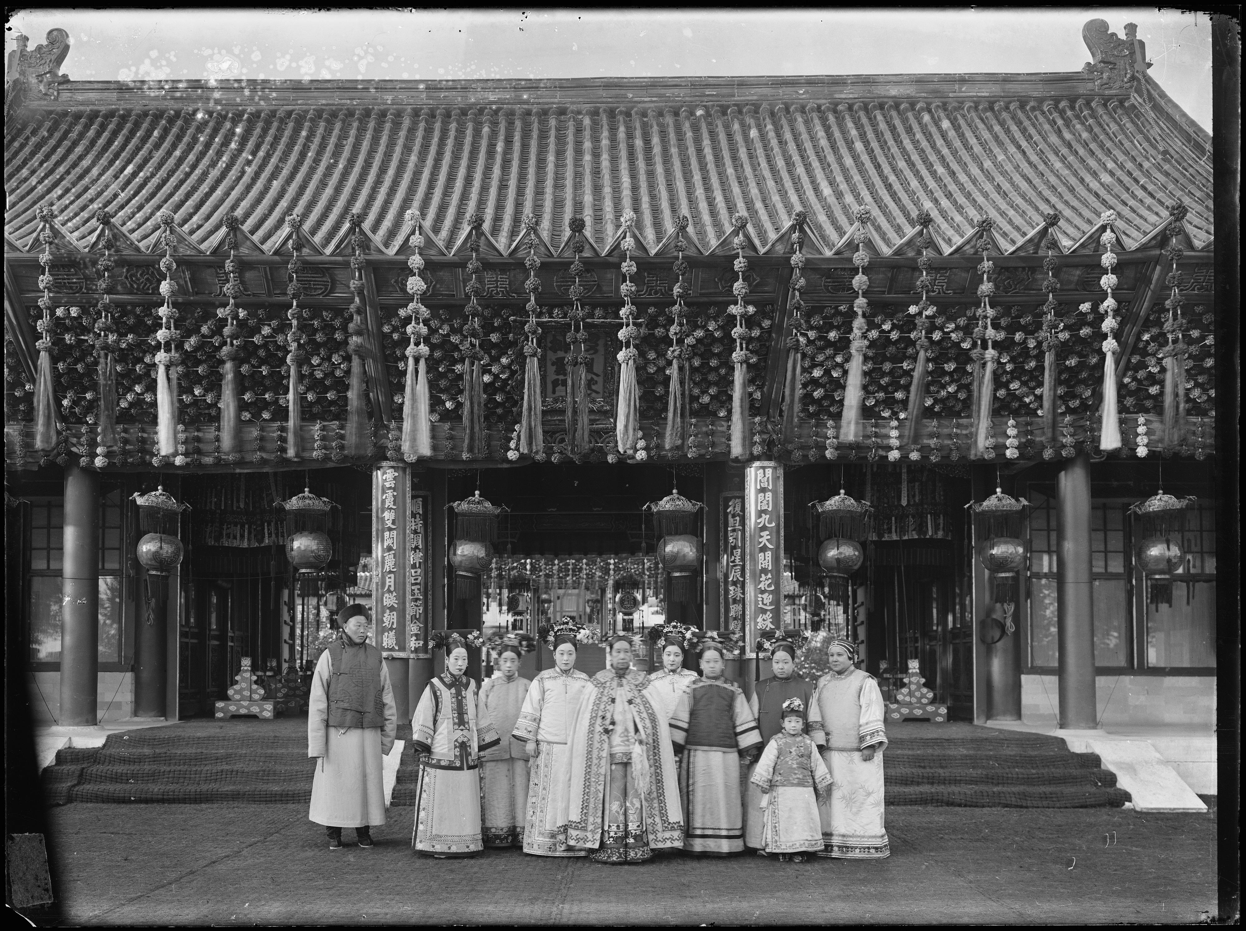 The Qing Dynasty Empress Dowager Cixi of China Photographed in 1902